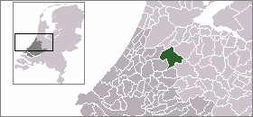 Location of Nieuwkoop (as of Jan. 2007), the Netherlands